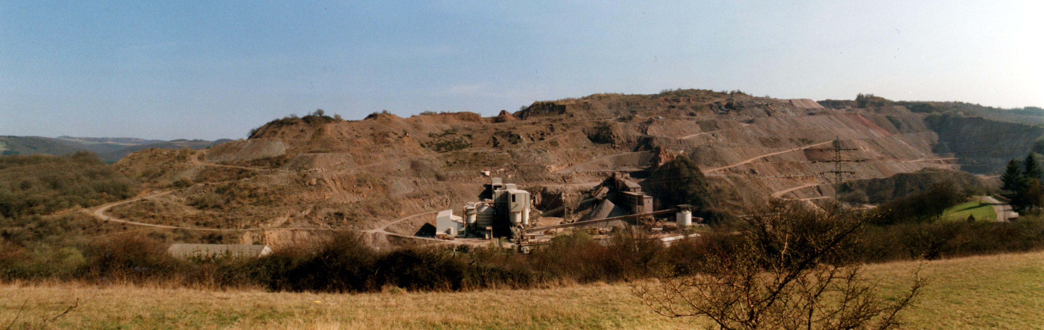 Quarry Rammelsbach (Germany). NOTE: This image is a panorama of Rammelsbach consisting of 2 frames that were merged or stitched in Microsoft Image Composite Editor. As a result, this image necessarily underwent some form of digital manipulation. These manipulations may include blending, blurring, cloning, and colour and perspective adjustments. As a result of these adjustments, the image content may be slightly different from reality at the points where multiple images were combined. This manipulation is often required due to lens, perspective, and parallax distortions.